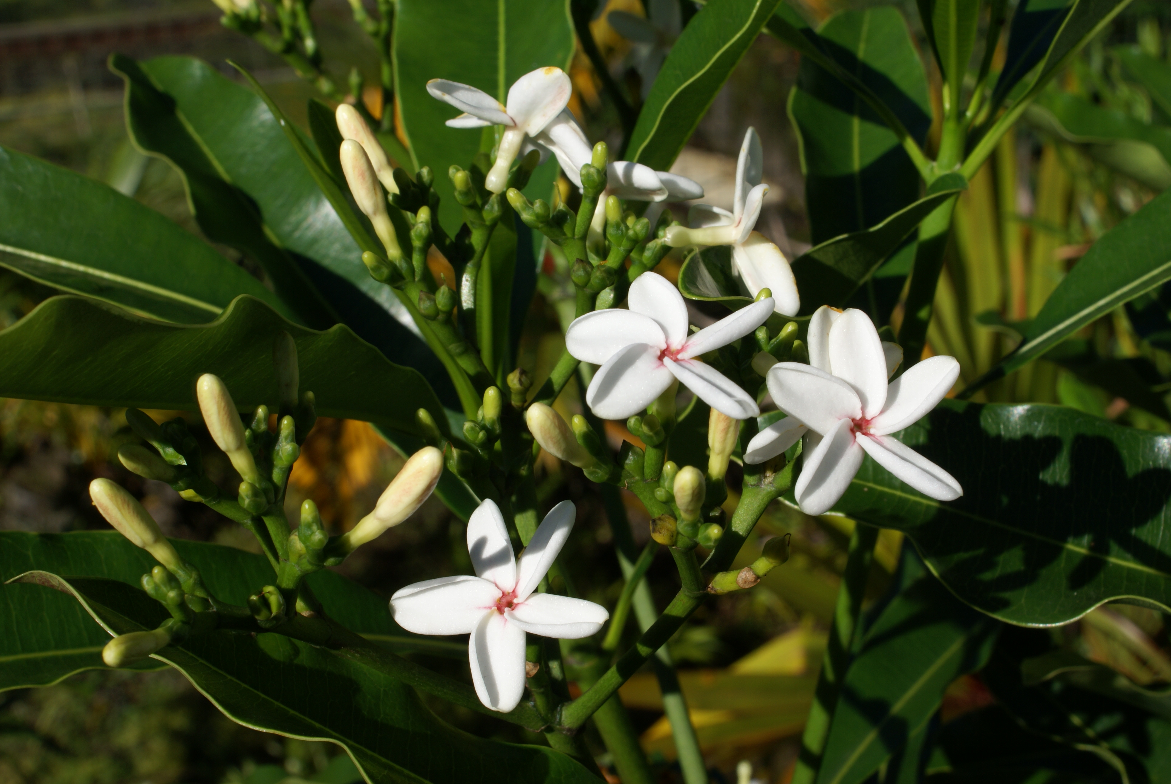 Blossom of Ochrosia borbonica, a tree species endemic to Réunion island belonging to the family of Apocynaceae